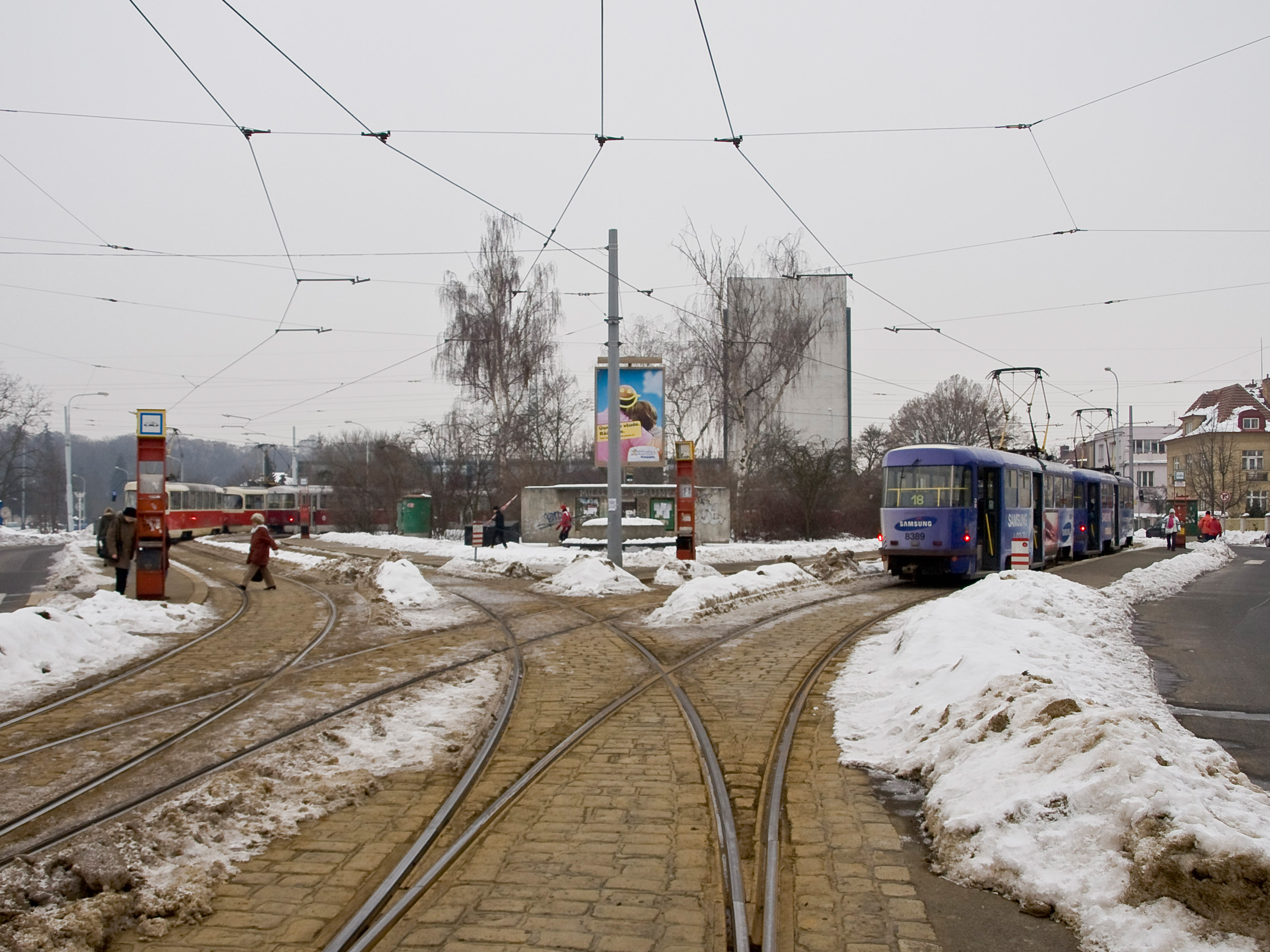 Tram loop Petřiny, Prague